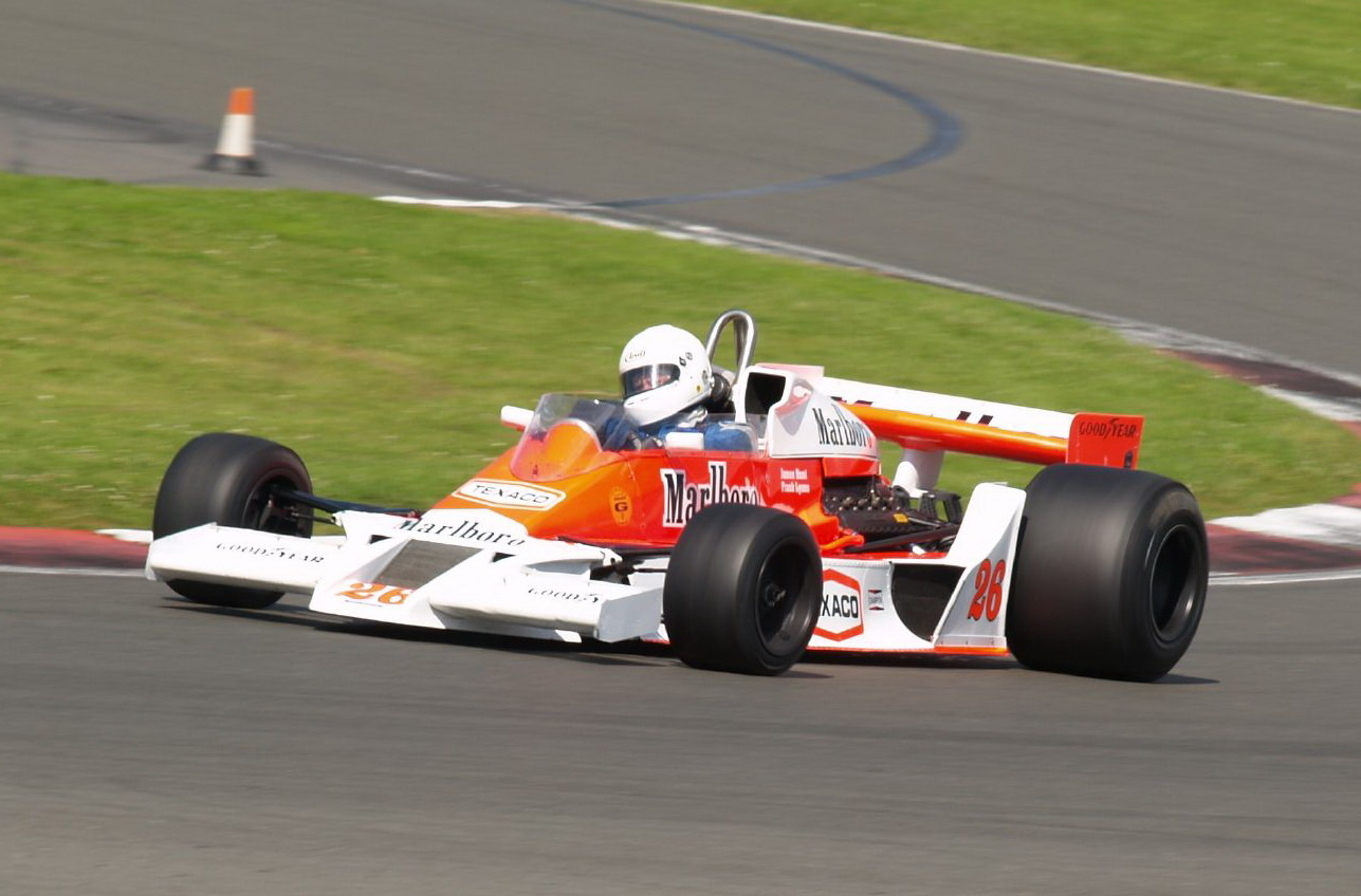 The McLaren M26 Formula One car being driven in 2007.